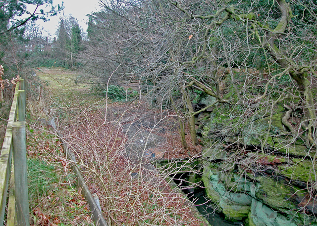 Former mill site The site of a mill held by the Abbey of Chester which appears to have existed for 700 years until the Windmill was erected in Mill Lane. It became part of the garden of Bache Hall when the Hall was re-built after the Civil War.